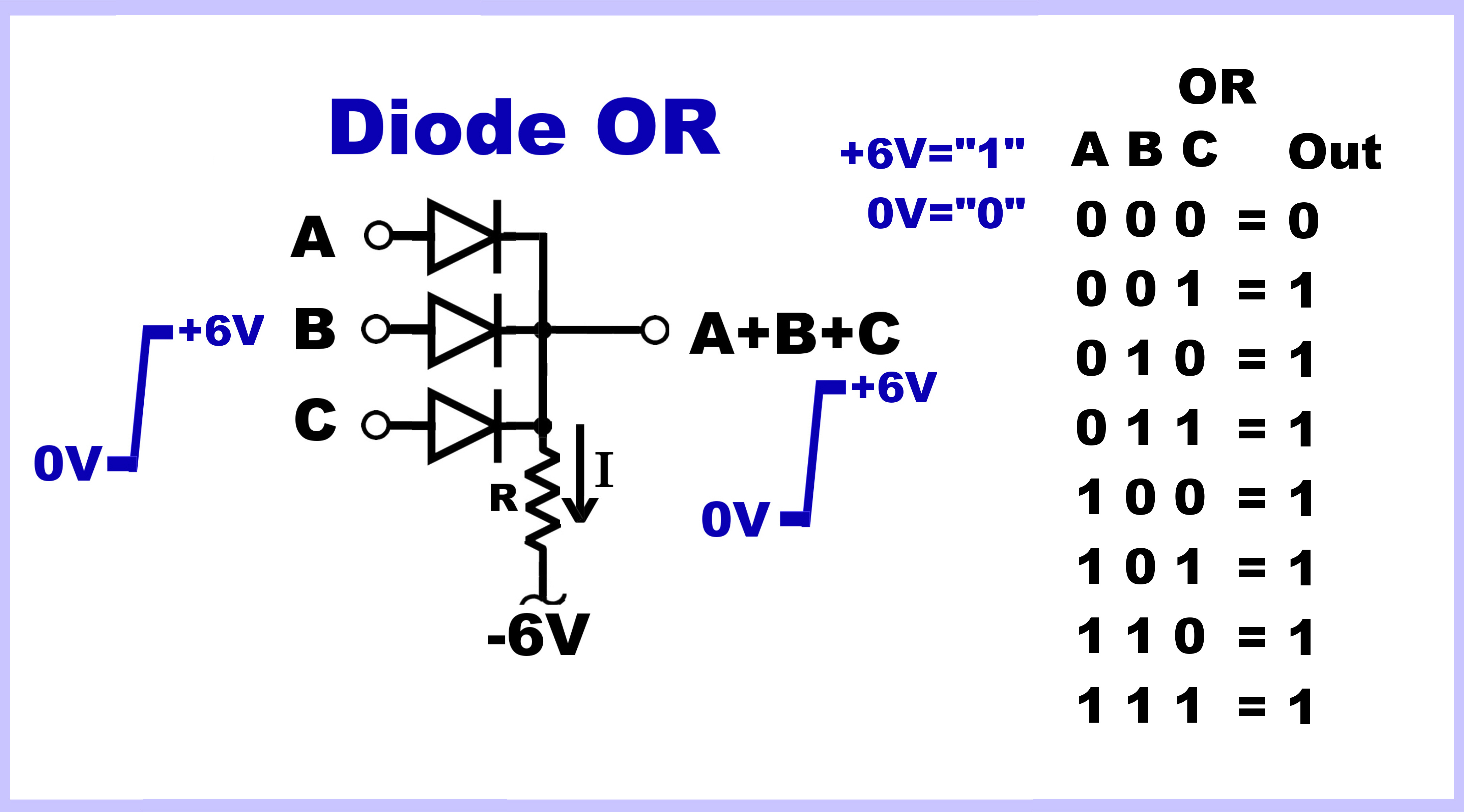 Diode AND with Ideal Diode